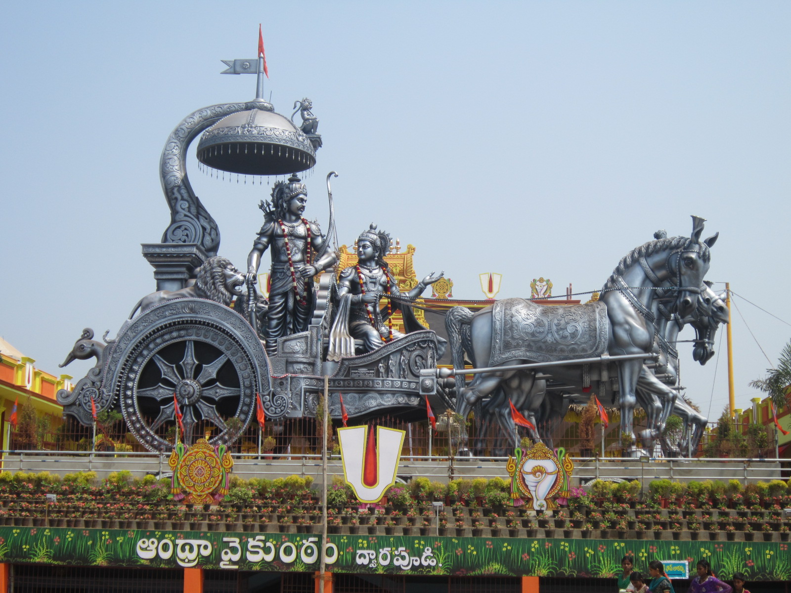 Lord krishna and Arjun